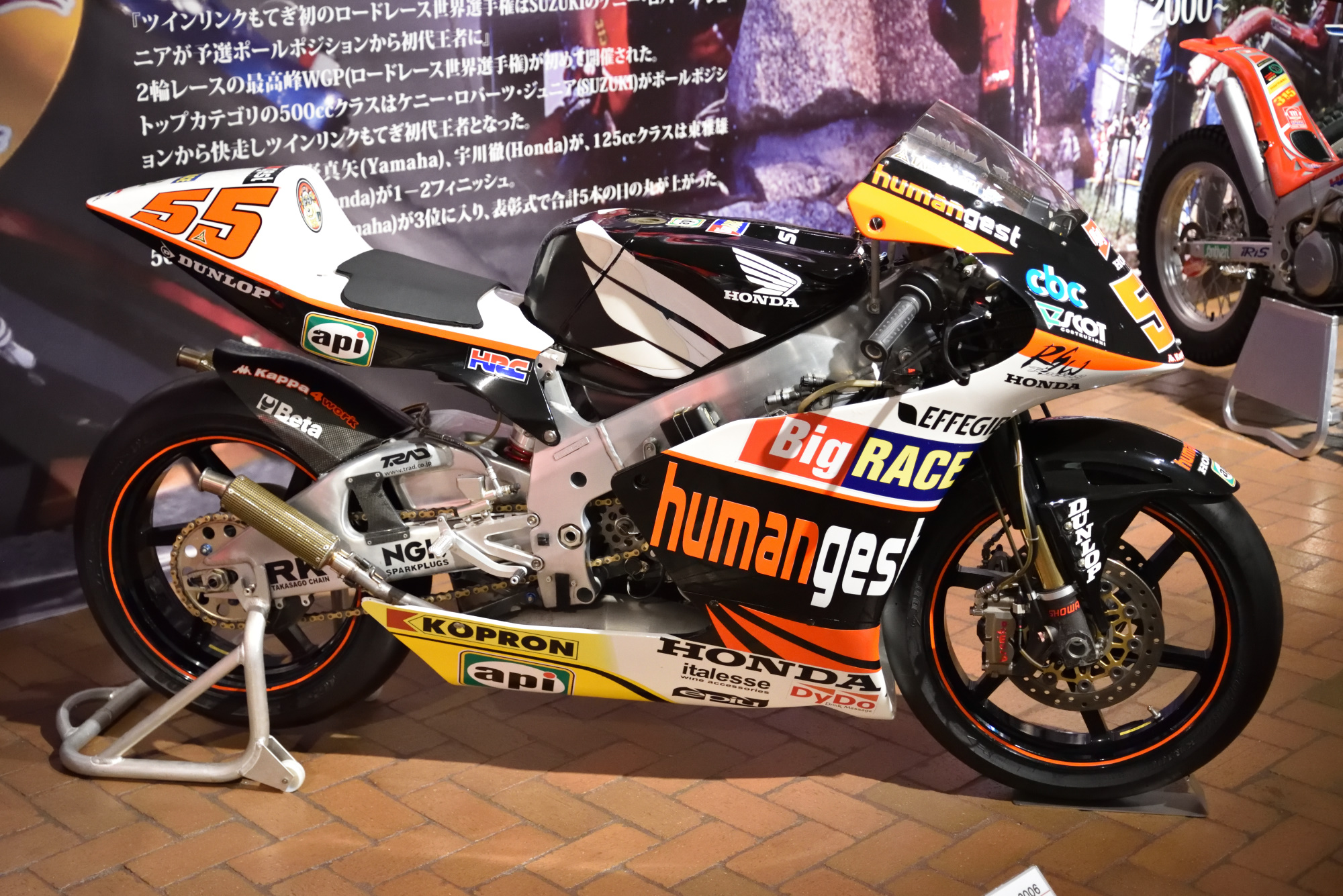 HONDA RS250RW (2006, Yuki Takahashi)